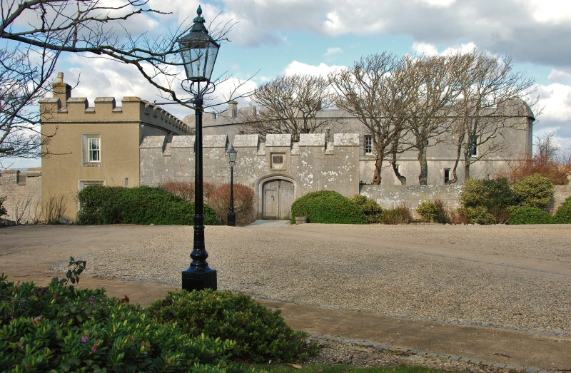 Portland Castle Portland Castle is one of the Device Forts, also known as Henrician Castles, built in 1539 by Henry VIII on the Isle of Portland to guard the natural Portland anchorage known as the Portland Roads. (From Wikipedia, the free encyclopedia)